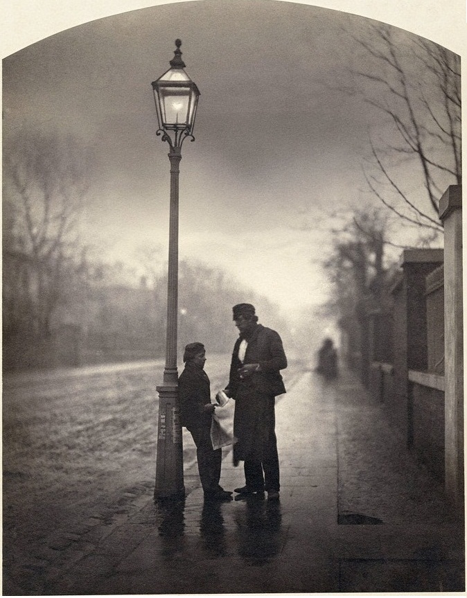 Studies on Light: Twilight’